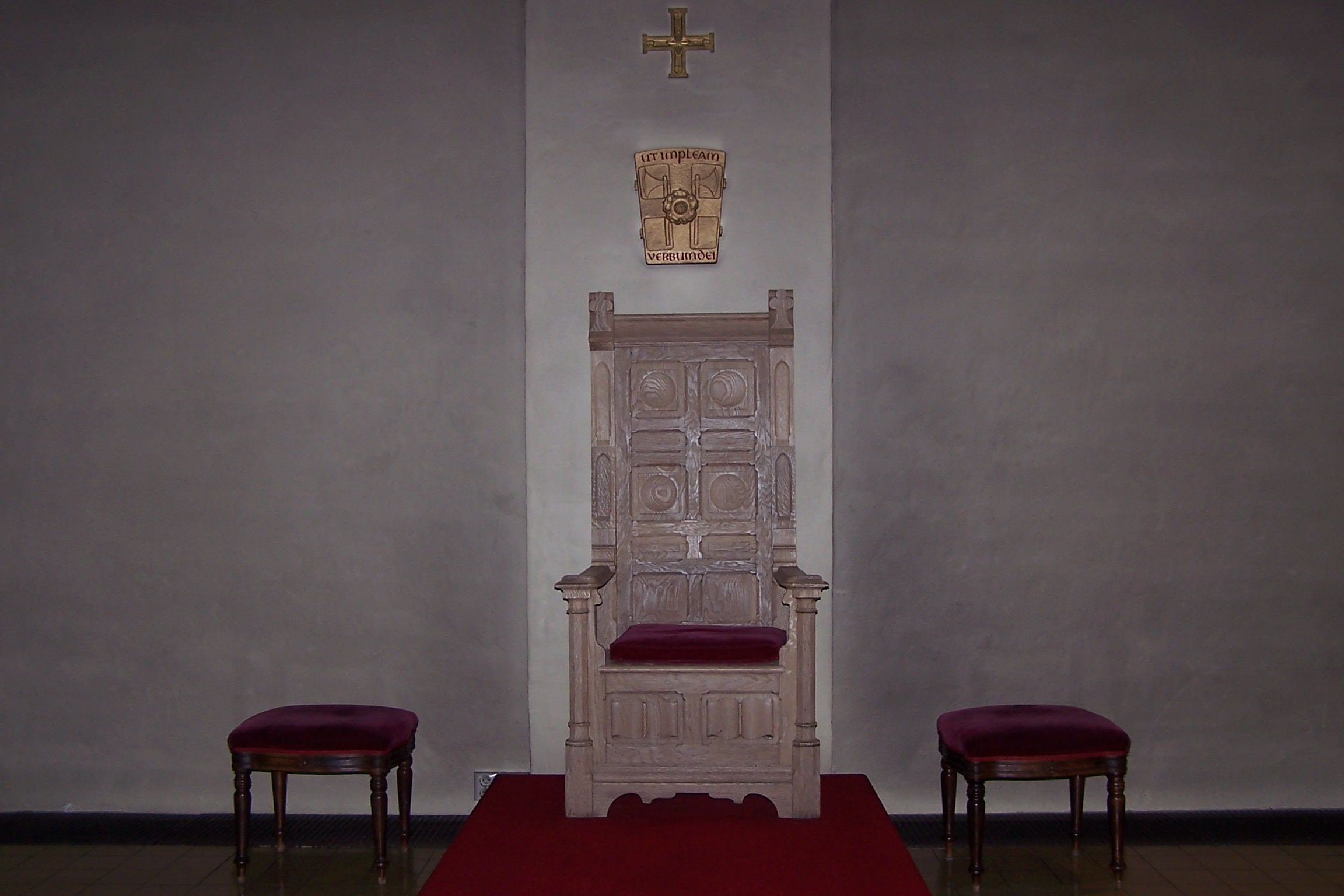 Episcopal throne in St. Olav's Cathedral, Oslo. Above throne the arms of bishop Dr. Gerhard Schwenzer (1983–2005). Photo Chris Nyborg, February 2006